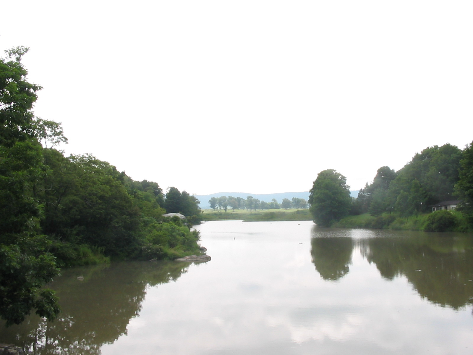 Image taken by me for Wikipedia